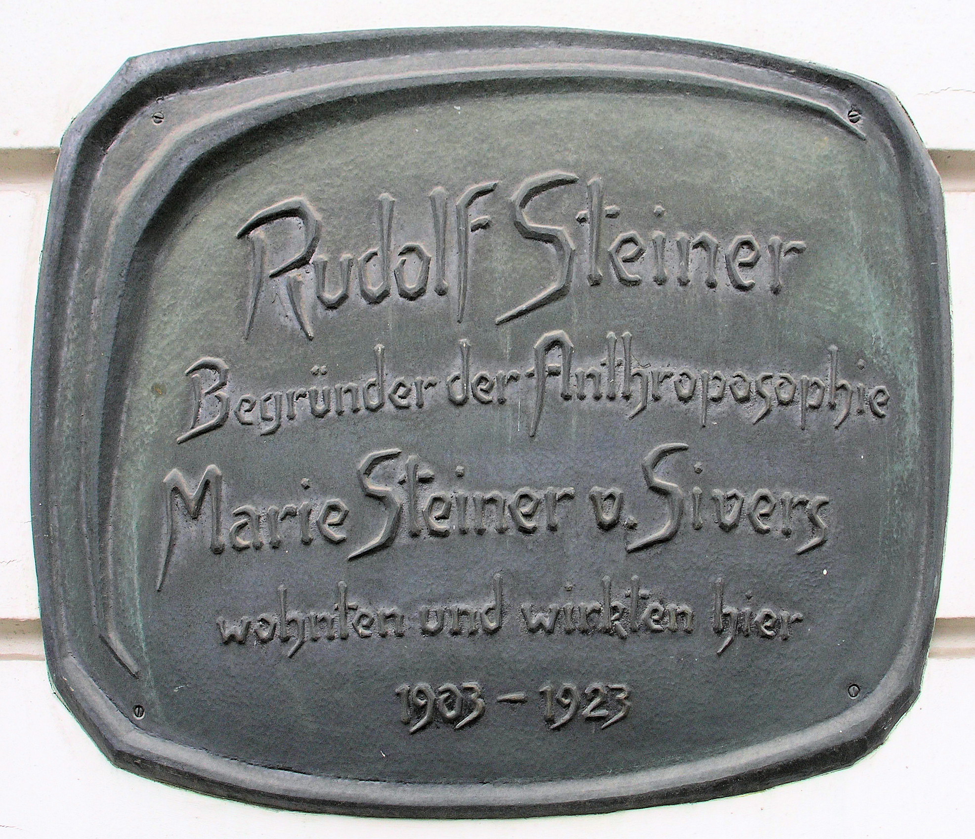 Memorial plaque, Rudolf Steiner, Motzstraße 30, Berlin-Schöneberg, Germany Koordinate:52°29′52″N 13°20′51″E / 52.49778°N 13.3475°E